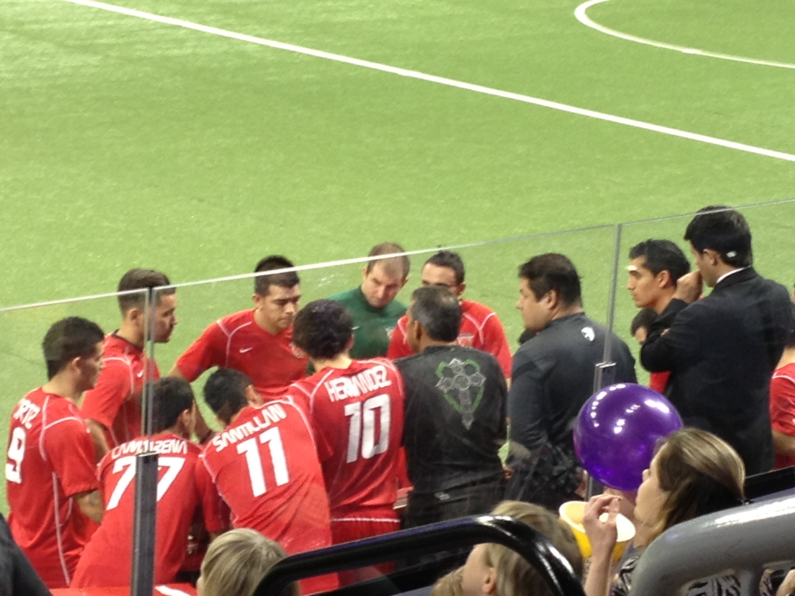 The Chicago Mustangs of the Professional Arena Soccer League huddle during a road game against the Dallas Sidekicks at the Allen Event Center in Allen, Texas.